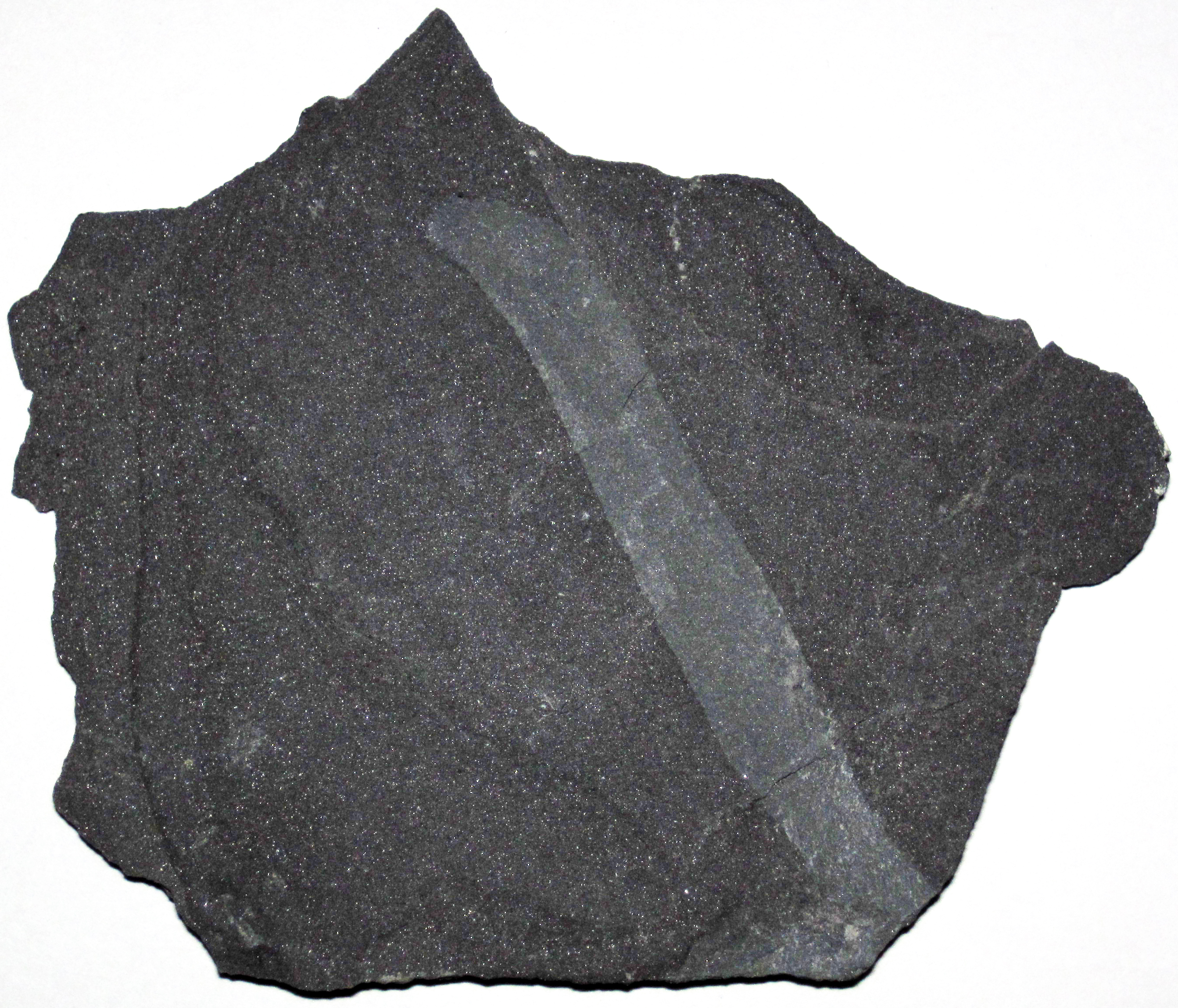 Black shale with burrow from the Mississippian of Ohio, USA. (~7.3 centimeters across at its widest) The Sunbury Shale is a black mudshale succession in Ohio - it is the oldest fully Mississippian-aged unit in the state. It occurs above the Berea Sandstone and below the Cuyahoga Formation. The Sunbury essentially identical to the older Ohio Shale. Compared with the Ohio Shale, the Sunbury is considerably thinner. Sunbury outcrops are uncommon. The gray-colored band in this shale sample is a fossil burrow. Such structures are called trace fossils, which are any indirect evidence of ancient life. They refer to features in rocks that do not represent parts of the body of a once-living organism. Traces include footprints, tracks, trails, burrows, borings, and bitemarks. Body fossils provide information about the morphology of ancient organisms, while trace fossils provide information about the behavior of ancient life forms. Interpreting trace fossils and determination of the identity of a trace maker can be straightforward (for example, a dinosaur footprint represents walking behavior) or not. Sediments that have trace fossils are said to be bioturbated. Burrowed textures in sedimentary rocks are referred to as bioturbation. Trace fossils have scientific names assigned to them, in the same style & manner as living organisms or body fossils. The burrow seen here has a gray mud infilling derived from basal shales of the overlying Cuyahoga Formation. The tiny whitish specks in the black shale appear to be reflective phyllosilicate grains (mica), plus some pyrite (?). Stratigraphy: Sunbury Shale, Kinderhookian Stage, lower Lower Mississippian Locality: creek cut along Black Lick Creek, in the town of Reynoldsburg, central Ohio, USA